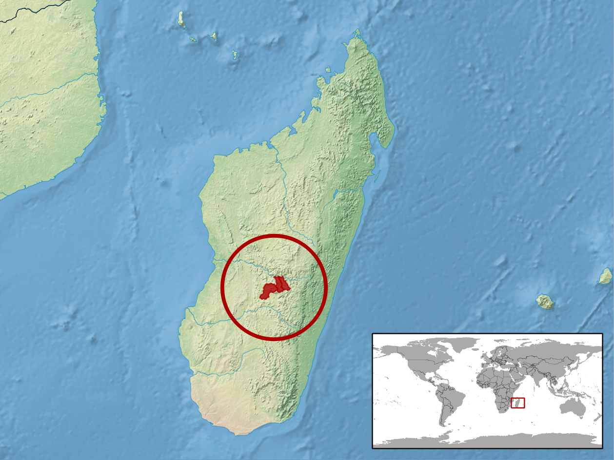 geographic distribution of Furcifer minor (Native: Madagascar)